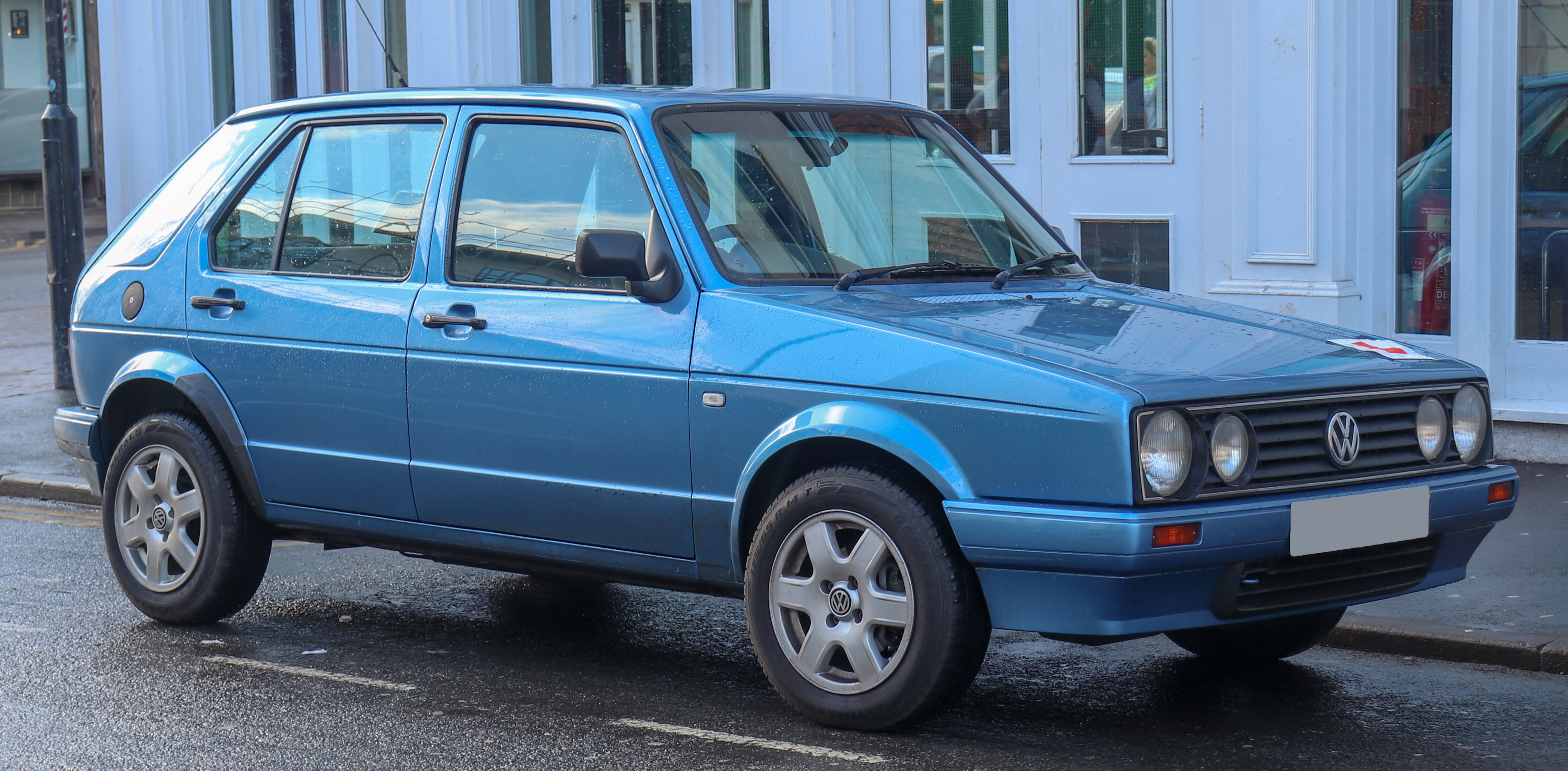 2006 Volkswagen Citi Golf 1.4 Front (Odd South African import) Taken in Leamington Spa